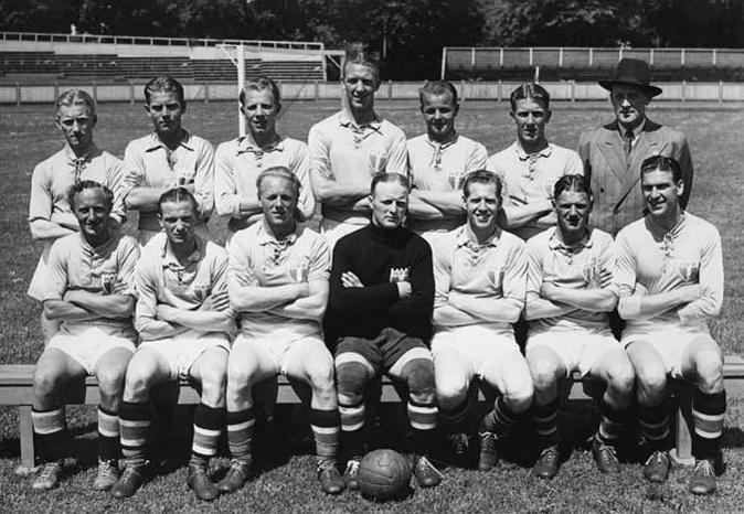 The Malmö FF team that won Allsvenskan in 1943–1944